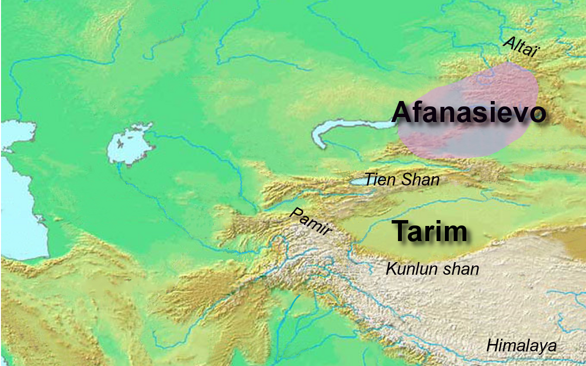 Comparison between area of Afanasievo culture (IV millenium BCE) and Tarim culture (Tocharian culture - Ie millenieum CE). Afanasievo culture is possibly ancestor of Tocharian culture.